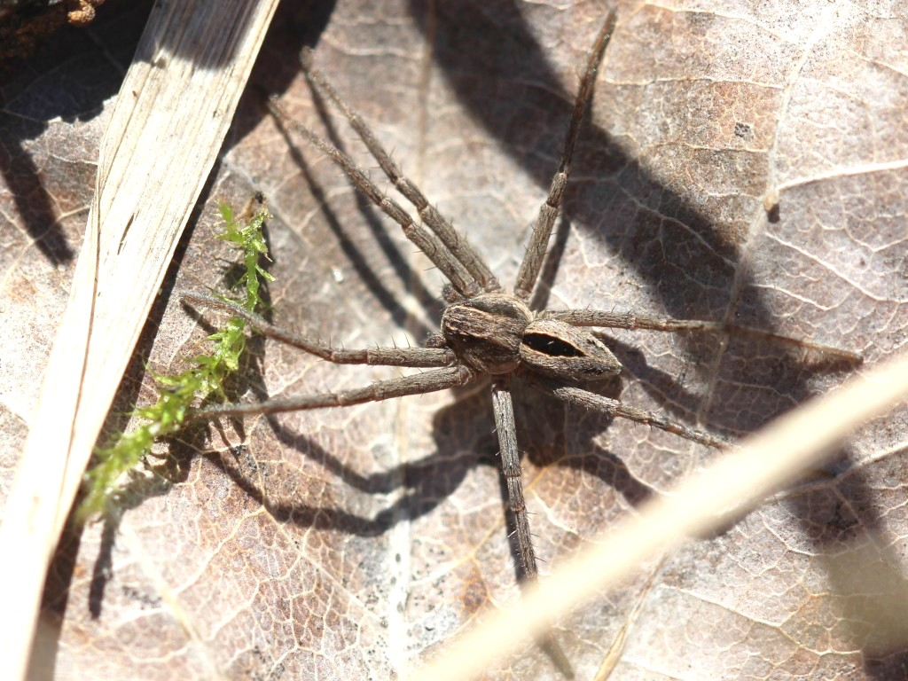 Thanatus formicinus